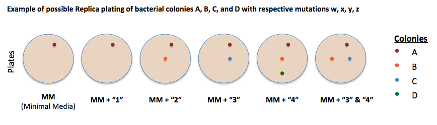 Sample Replica plates of colonies A, B, C, and D